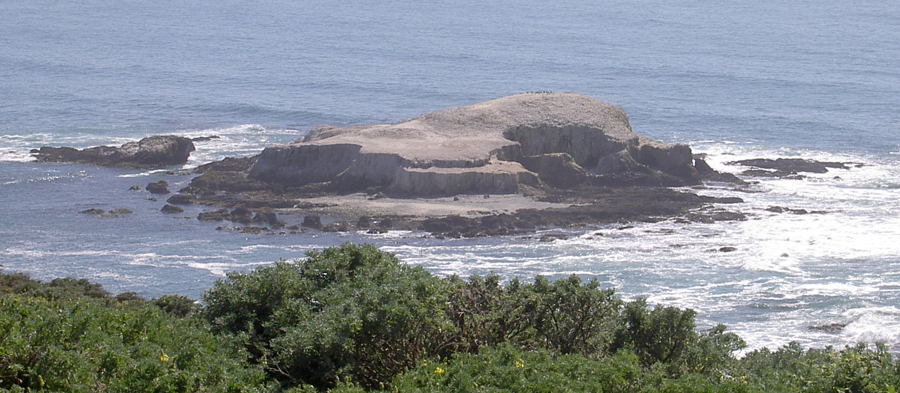 Bird Rock as seen from Tomales Point, from a photograph